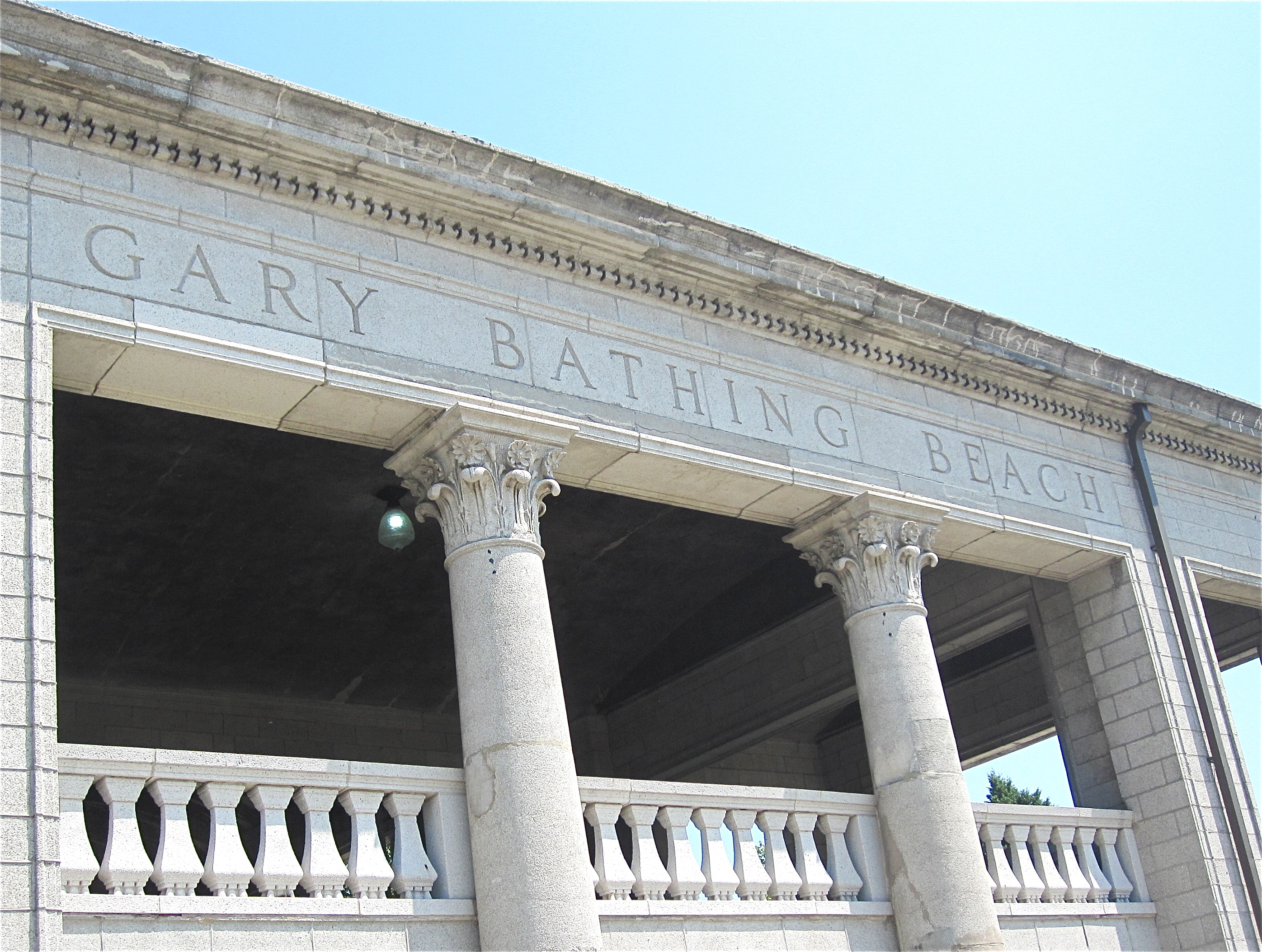 NRHP #94001354 Marquette Park Gary, Indiana Architect: George W. Maher and Sons Built as a shower/bathroom/changing facility, but by the 1960's the facility had fallen into major disrepair. In 1971 the building was closed to the public and boarded up. Rescued from demolition, a group has been trying to restore and revamp the structure. The building is one of the earliest examples of pre-cast concrete modular construction with 90% built from only six basic cast blocks, a precursor of today's standard concrete block.